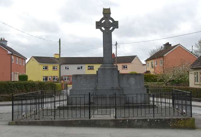 Photo of the Barnes & McCormack Memorial in Banagher, County Offaly, Ireland.